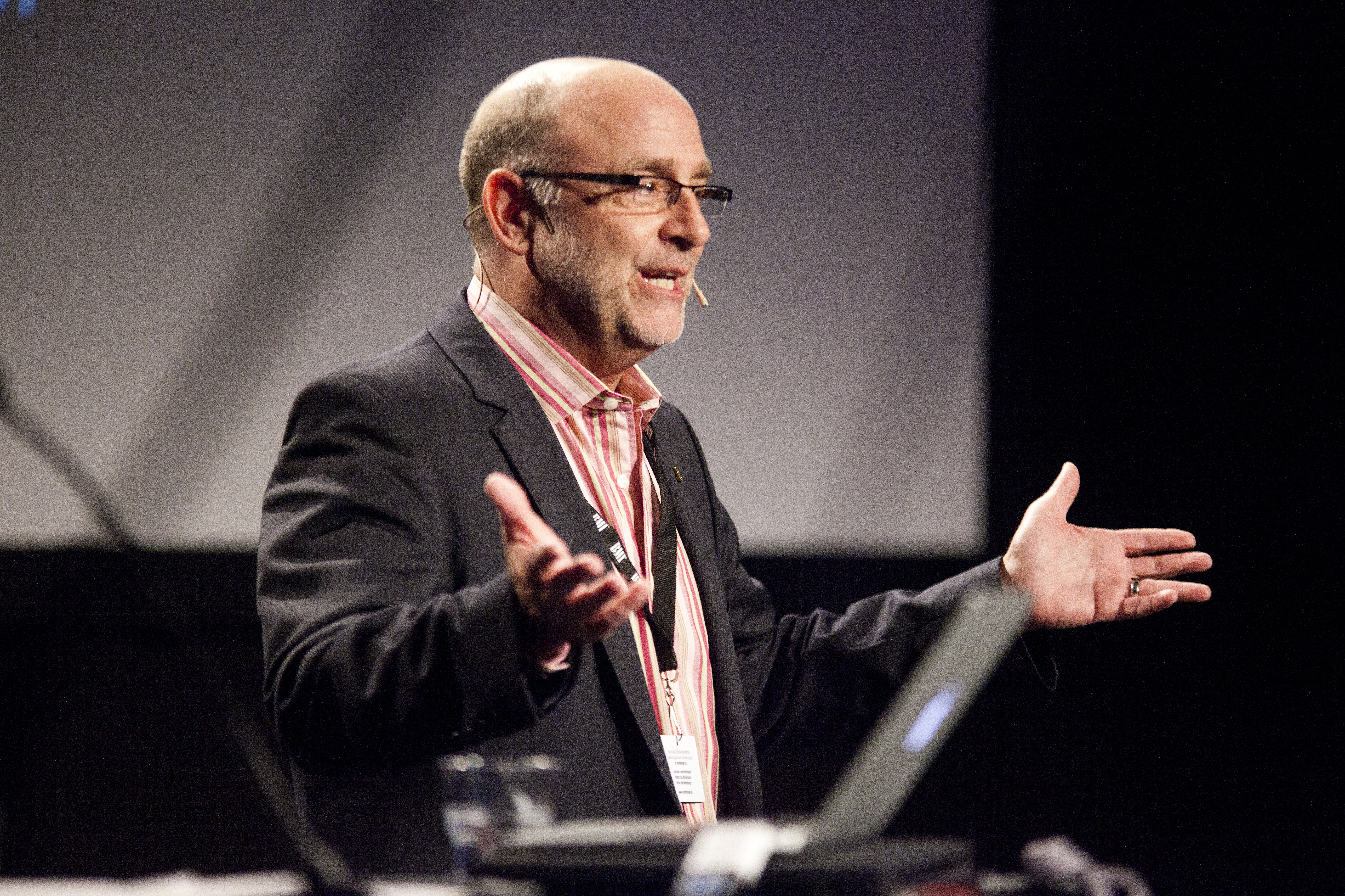 Plattformsjefen Brian Seth Hurst_fotoEmil Weatherhead Breistein_01